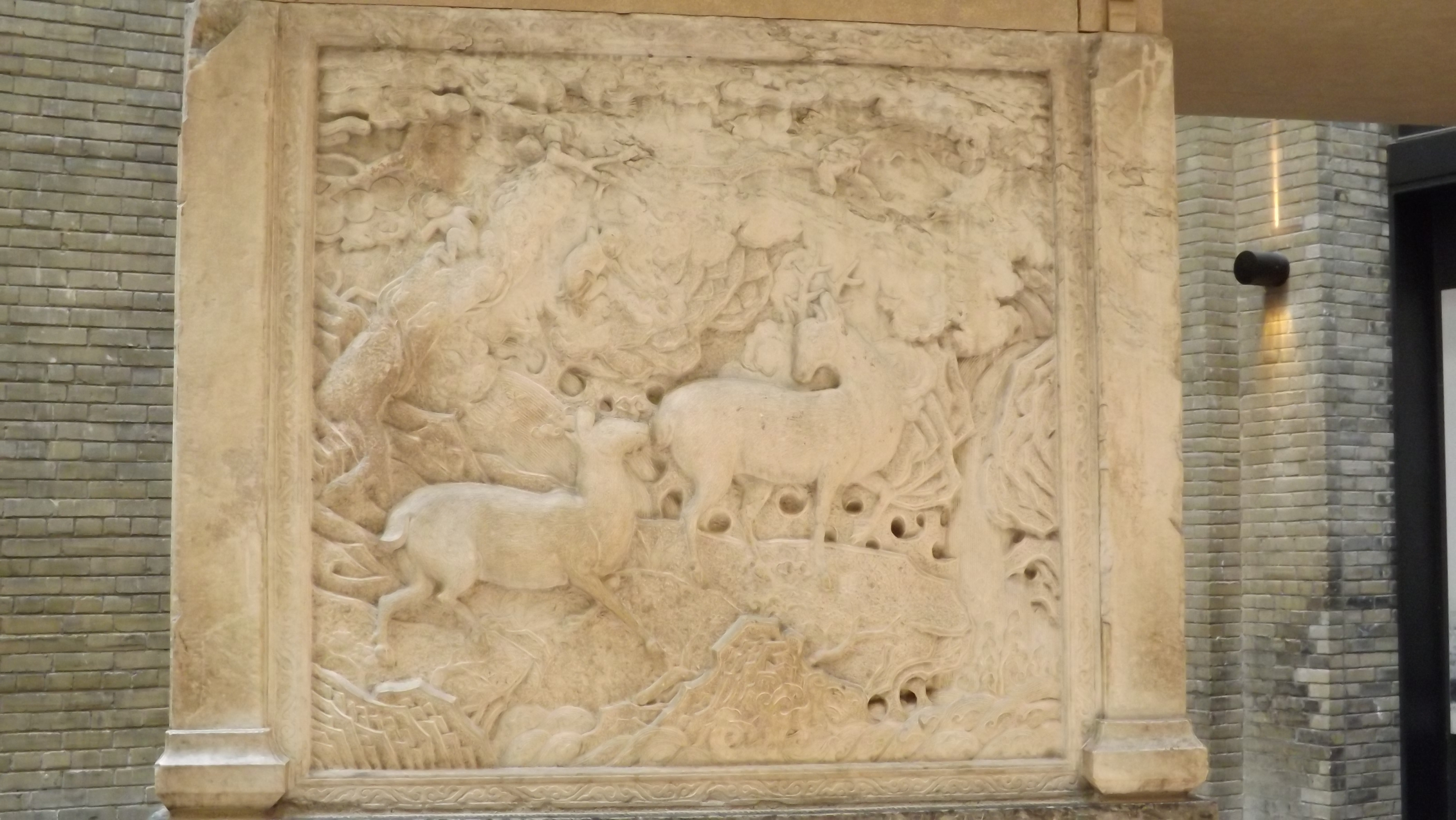 Archway, view from burial mound, Royal Ontario Museum